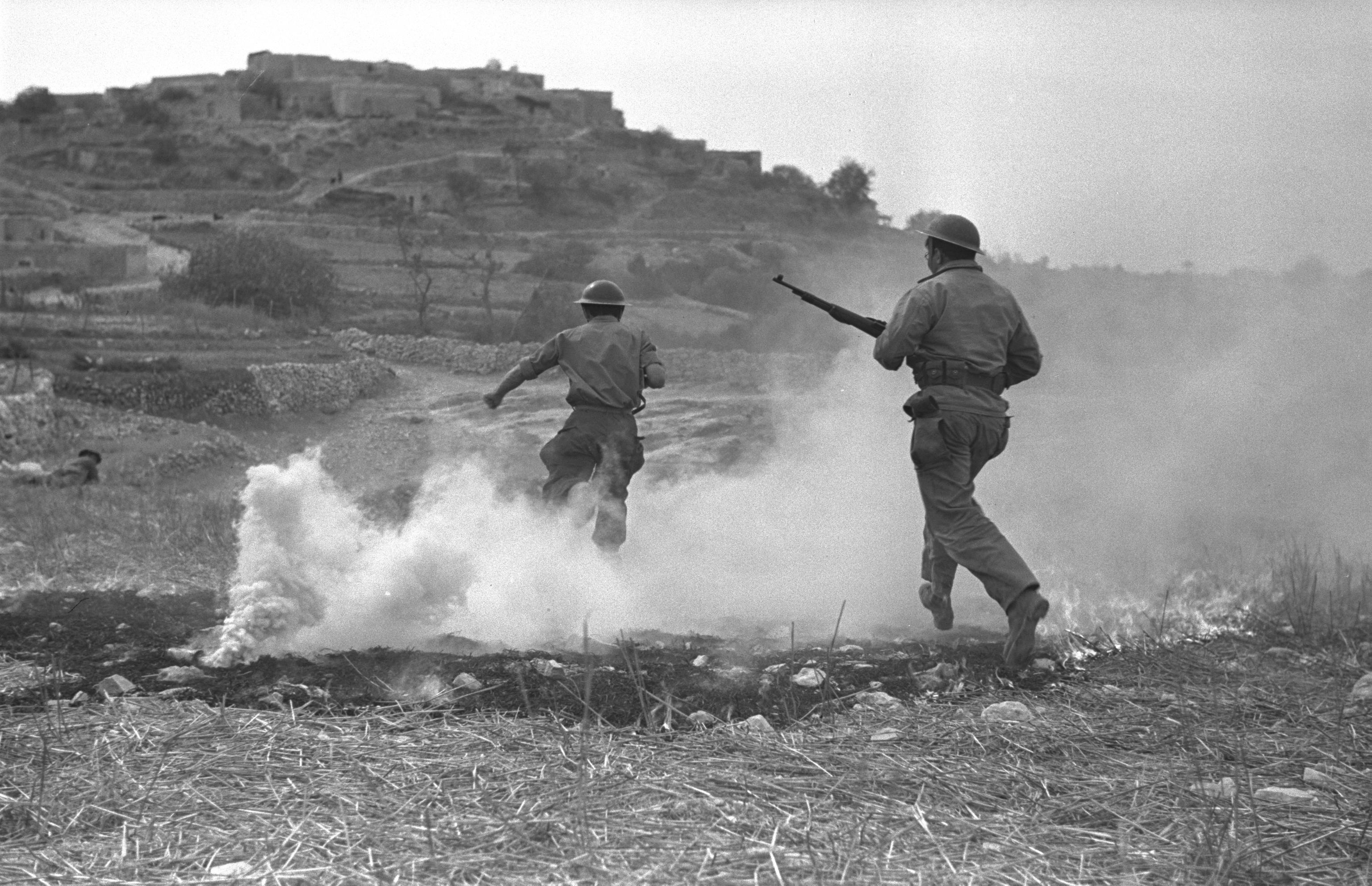 Israeli soldiers in battle with the Arab village of Sassa in the upper Galilee.